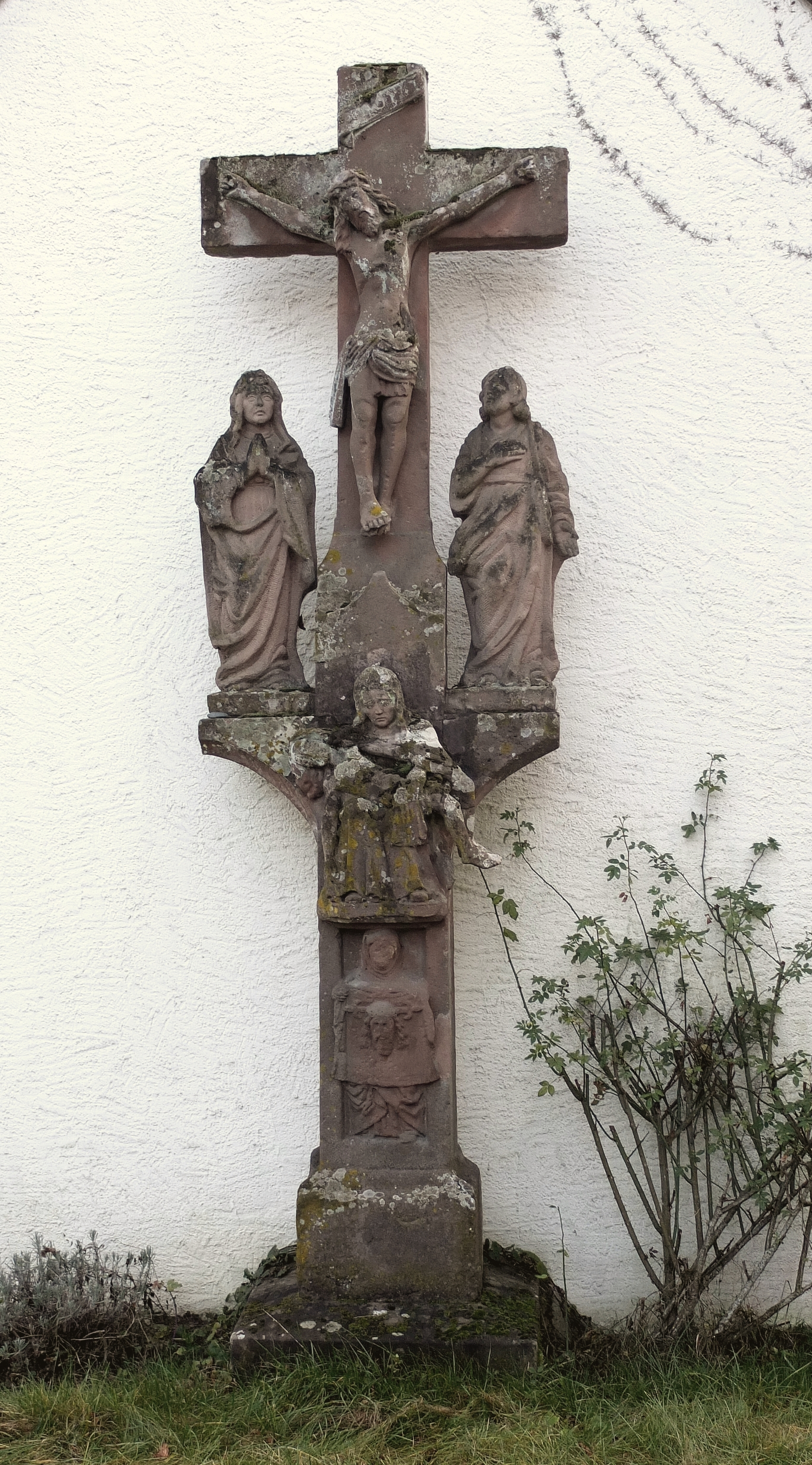 Wayside cross (1587) in Bettingen (Eifel), Germany This is a photograph of an architectural monument.It is on the list of cultural monuments of Bettingen (Eifel